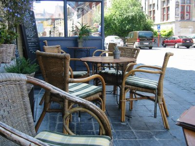 Rattan wicker chairs